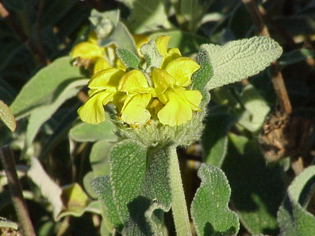 Species: Phlomis spec. Family: Lamiaceae Image No. 1